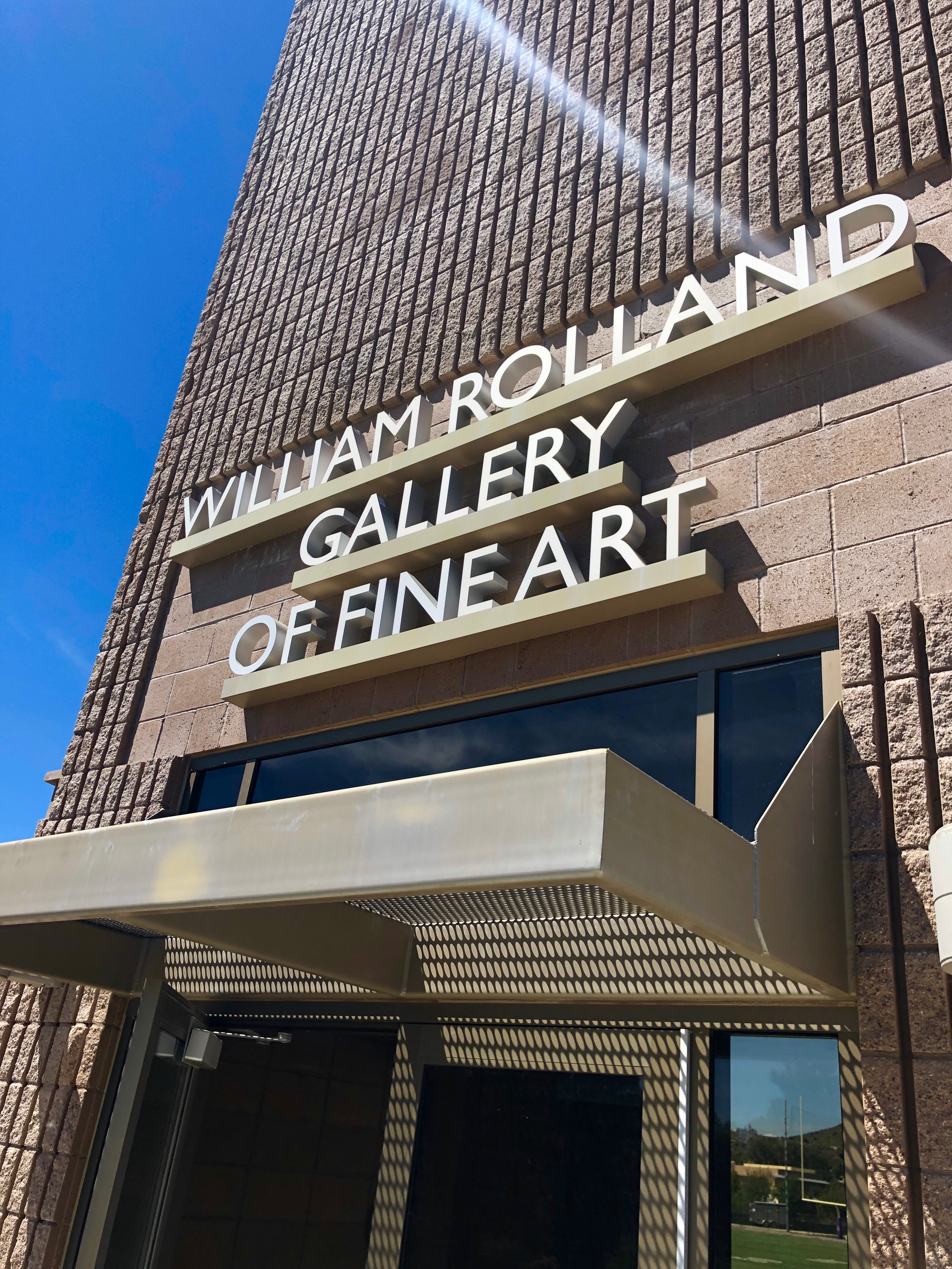 William Rolland Gallery of Fine Arts at California Lutheran University